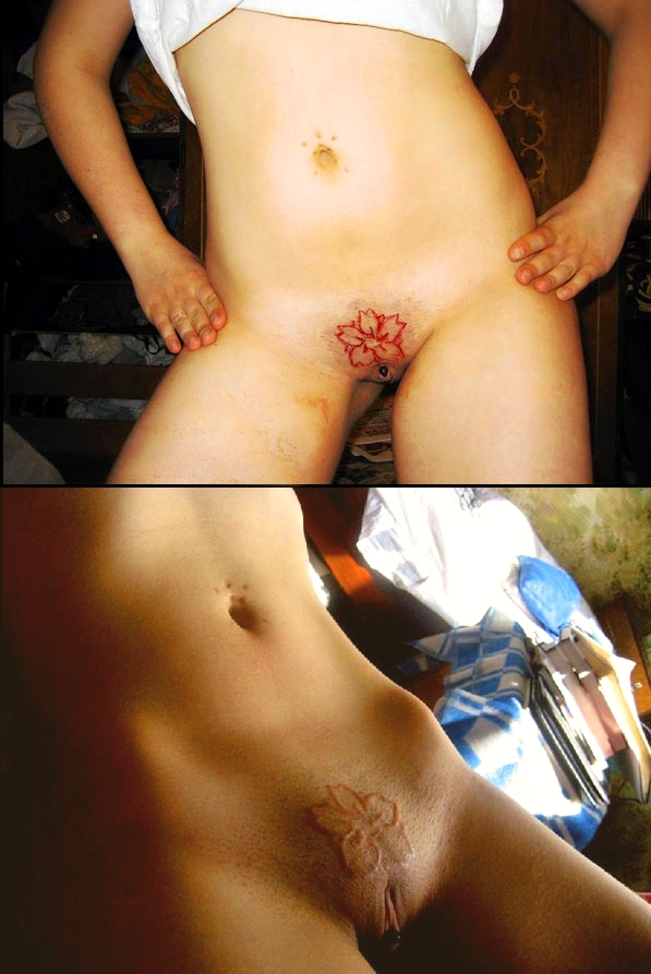 Hanabira scarification, fresh & healed